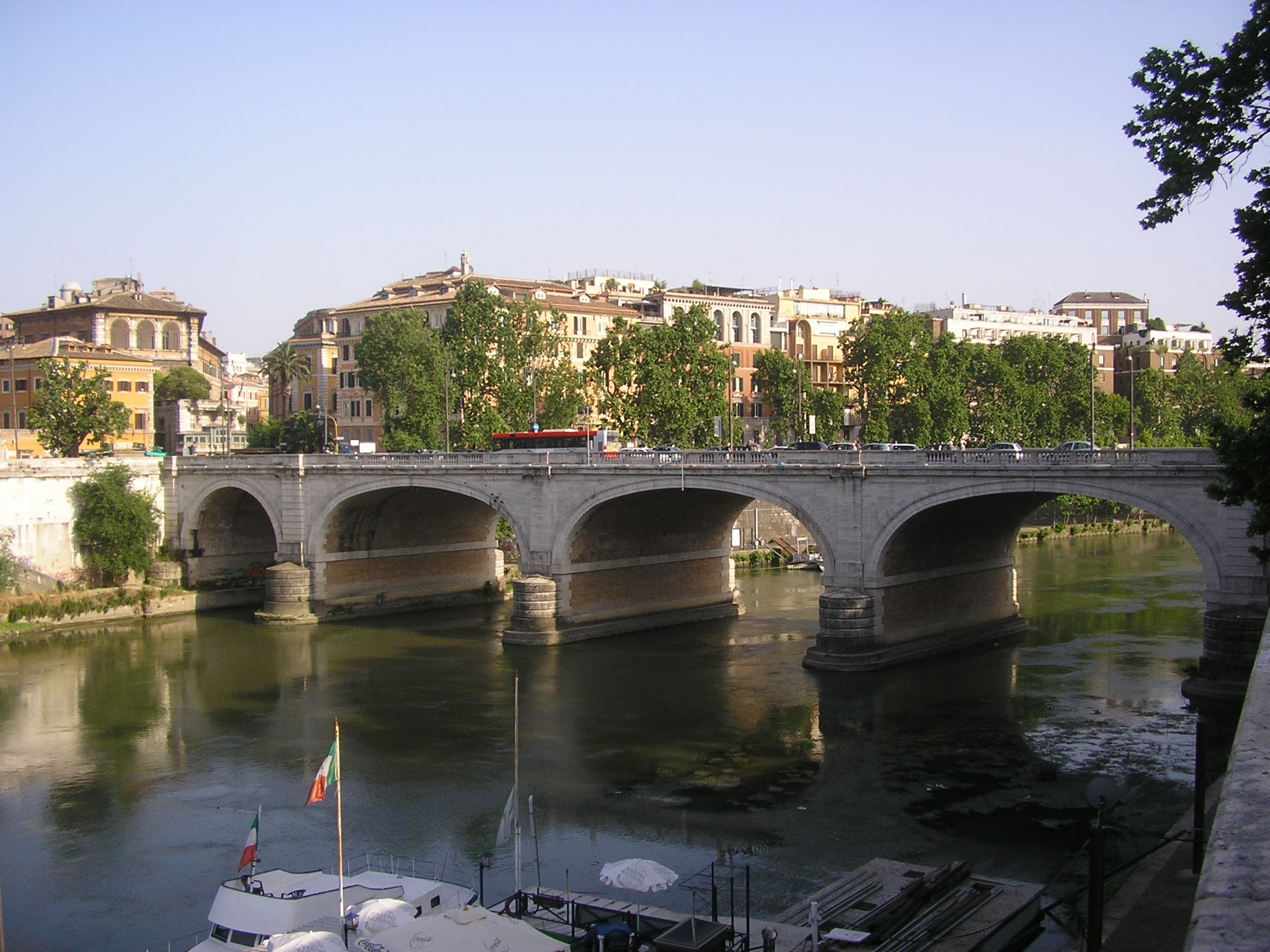 Cavour Bridge in Rome, Italy.